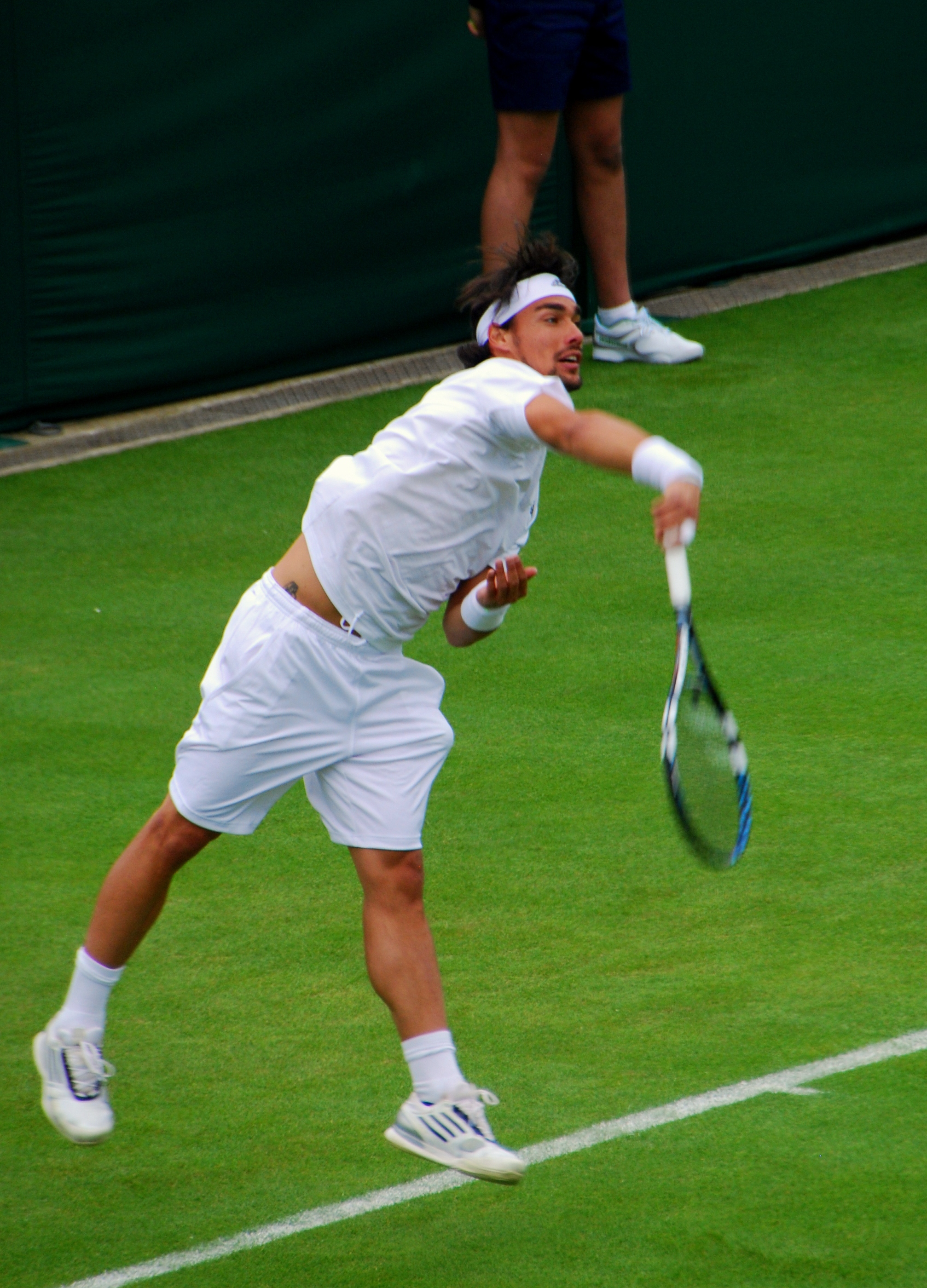 Fabio Fognini serves at Wimbledon 2013.